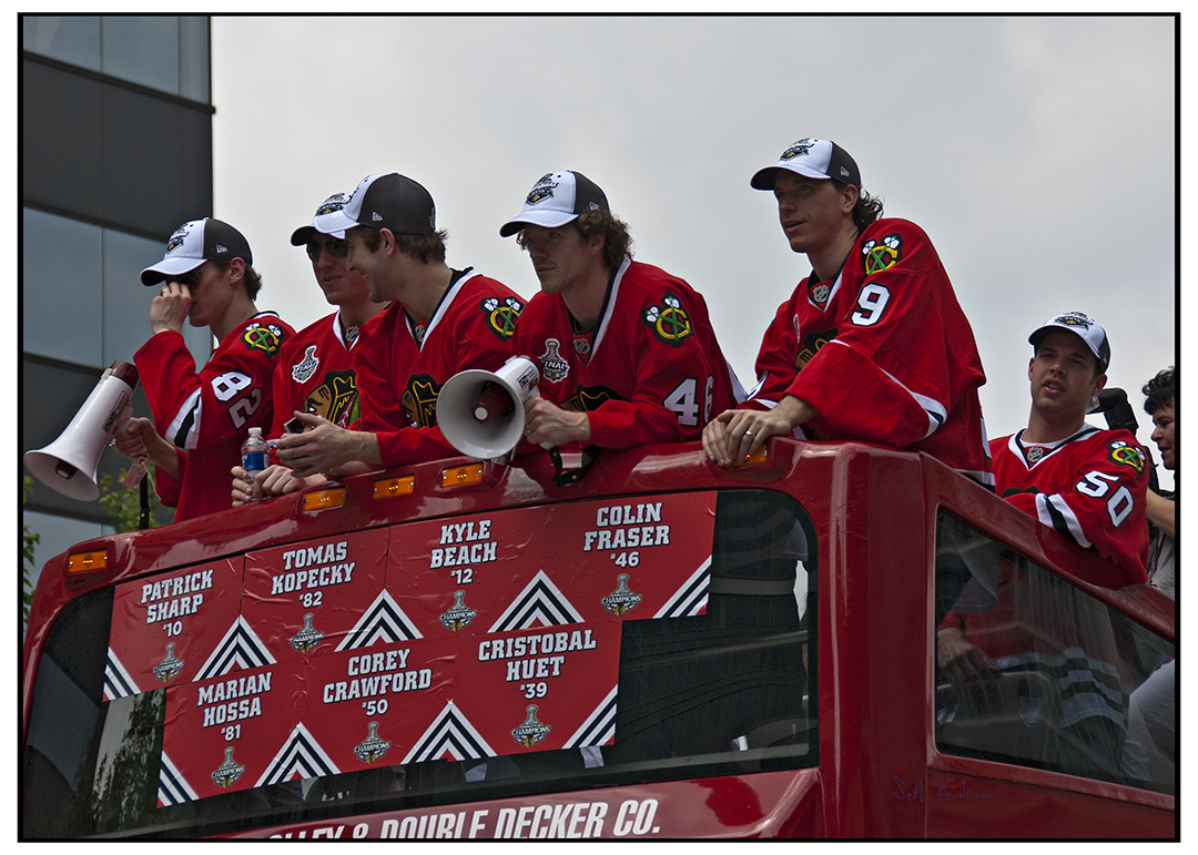 Blackhawks Victory Parade 2010; from left to right: Tomas Kopecky, 2 unknowns, Colin Fraser, Cristobal Huet, Corey Crawford